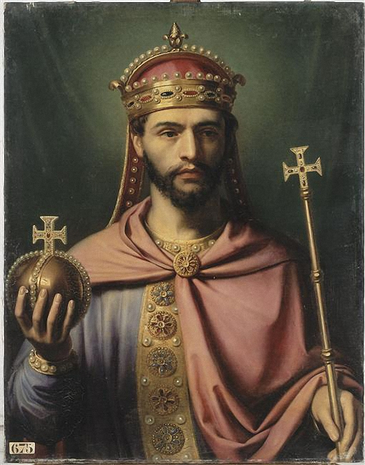 Portraits of Kings of France is a serie of portraits commissioned between 1837 and 1838 by Louis Philippe I and painted by various artists for the Musée historique de Versailles.